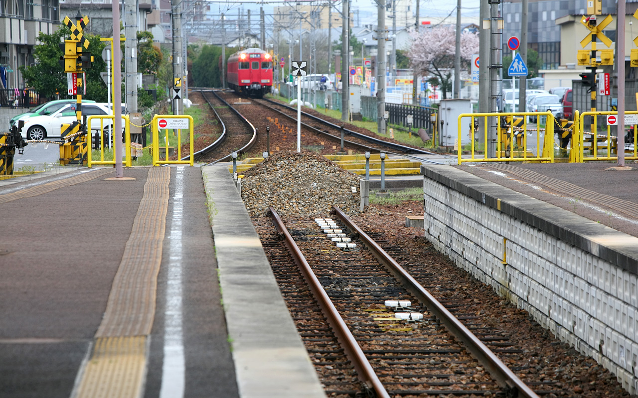 A terminating and reversing track of Owari Asahi Station for Sakaemachi Station, between Platforms 2 and 3.